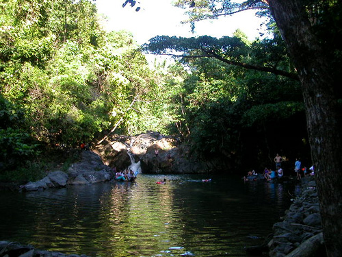 Mablaran Falls in Brgy. Linawan, San Andres, Romblon